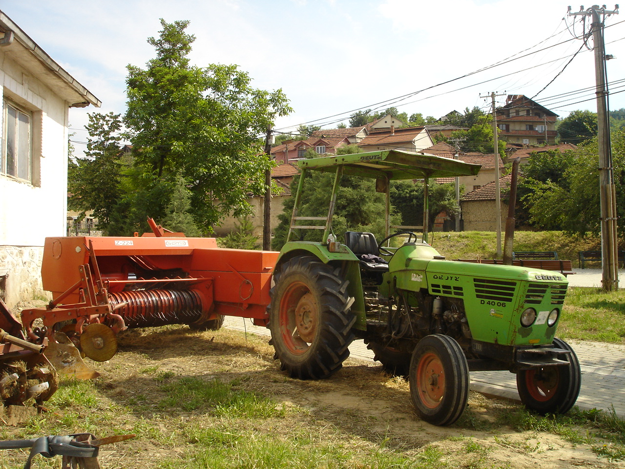 Tractor